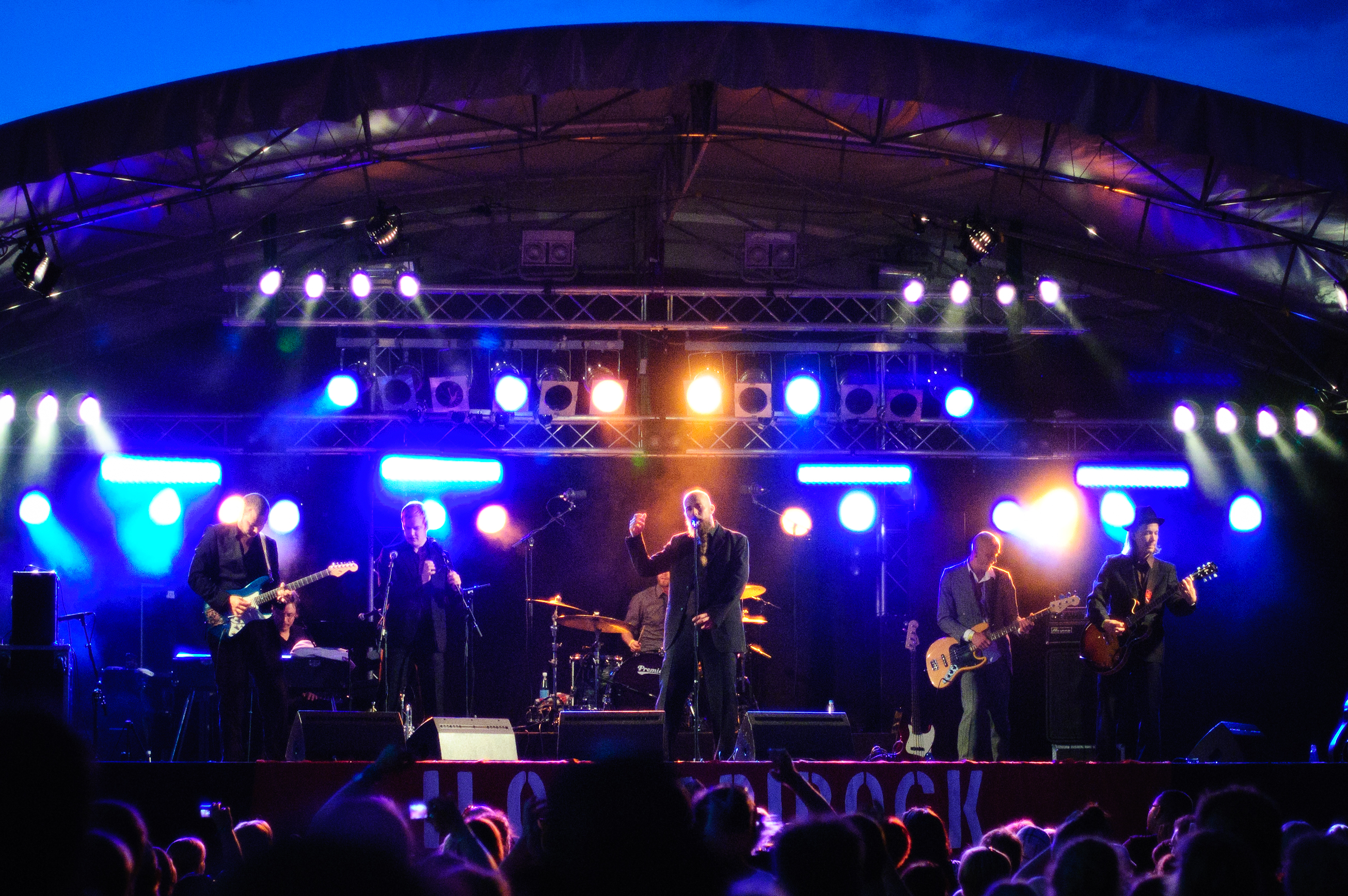 Finnish band Vesterinen Yhtyeineen performing at the 2010 Ilosaarirock festival in Joensuu, Finland.